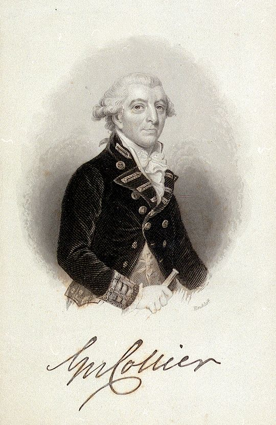 Vice Admiral Sir George Collier 1738-1795